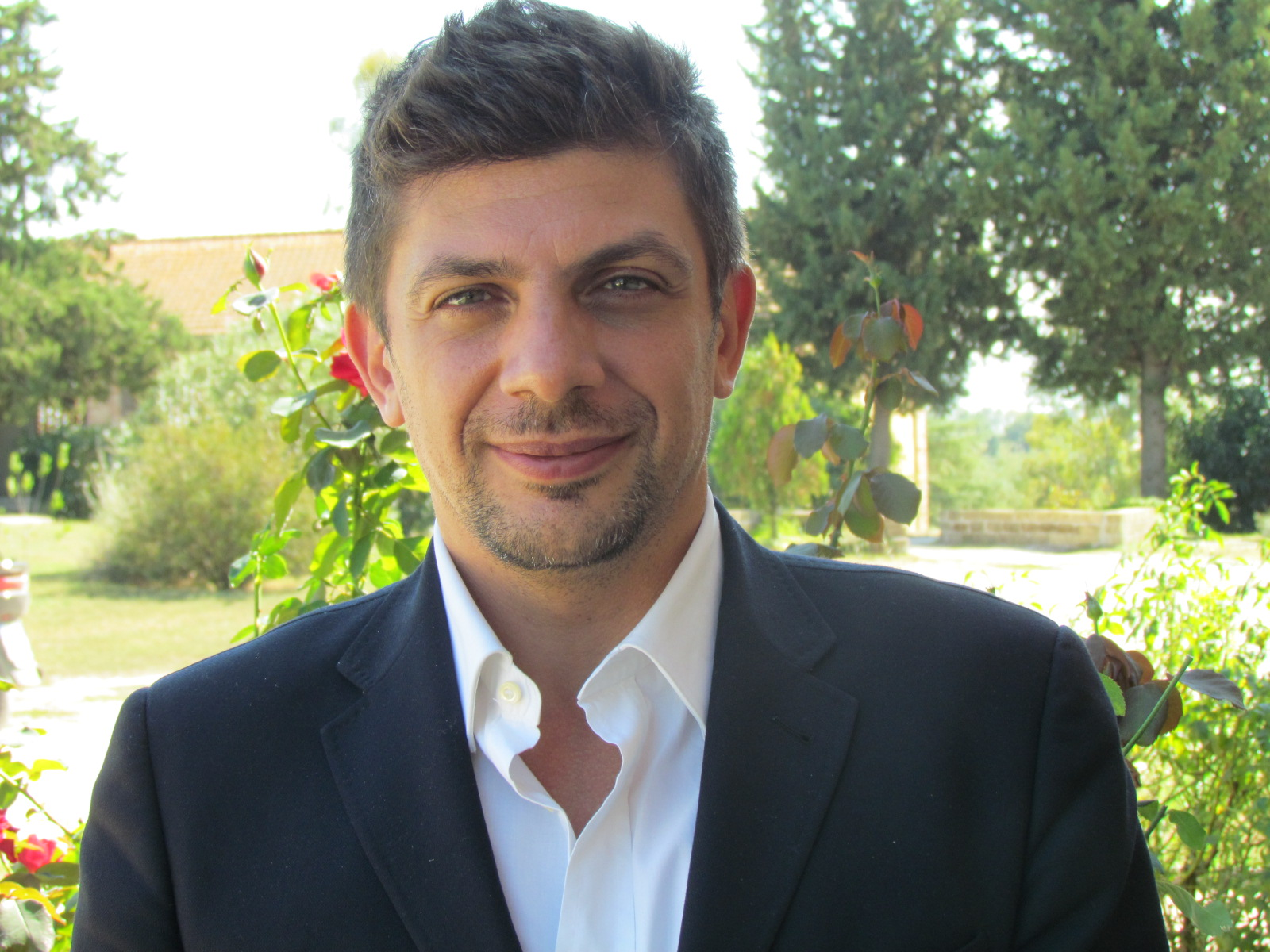 Italian Journalist, is Vice President of the Permanent Secretariat of the World Summit of Nobel Peace Laureates.